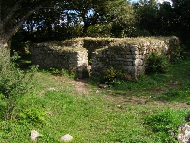 Remains of Madron Well Chapel. Madron Well Chapel is over 100 metres from the 'actual' Madron Holy Well, but it contains a stone trough of running water in the corner which was also considered to be a holy well. In 1640 the cripple John Trelille came and bathed once a week for three weeks and was cured. In the past two years a lot has been done to tidy up and improve access to the chapel remains, which are out in the fields north of Madron village. The path there from the neat car parking area is smooth and well-surfaced, there is a new drystone wall and gate to the chapel area and the chapel building has been cleared of invading plants.